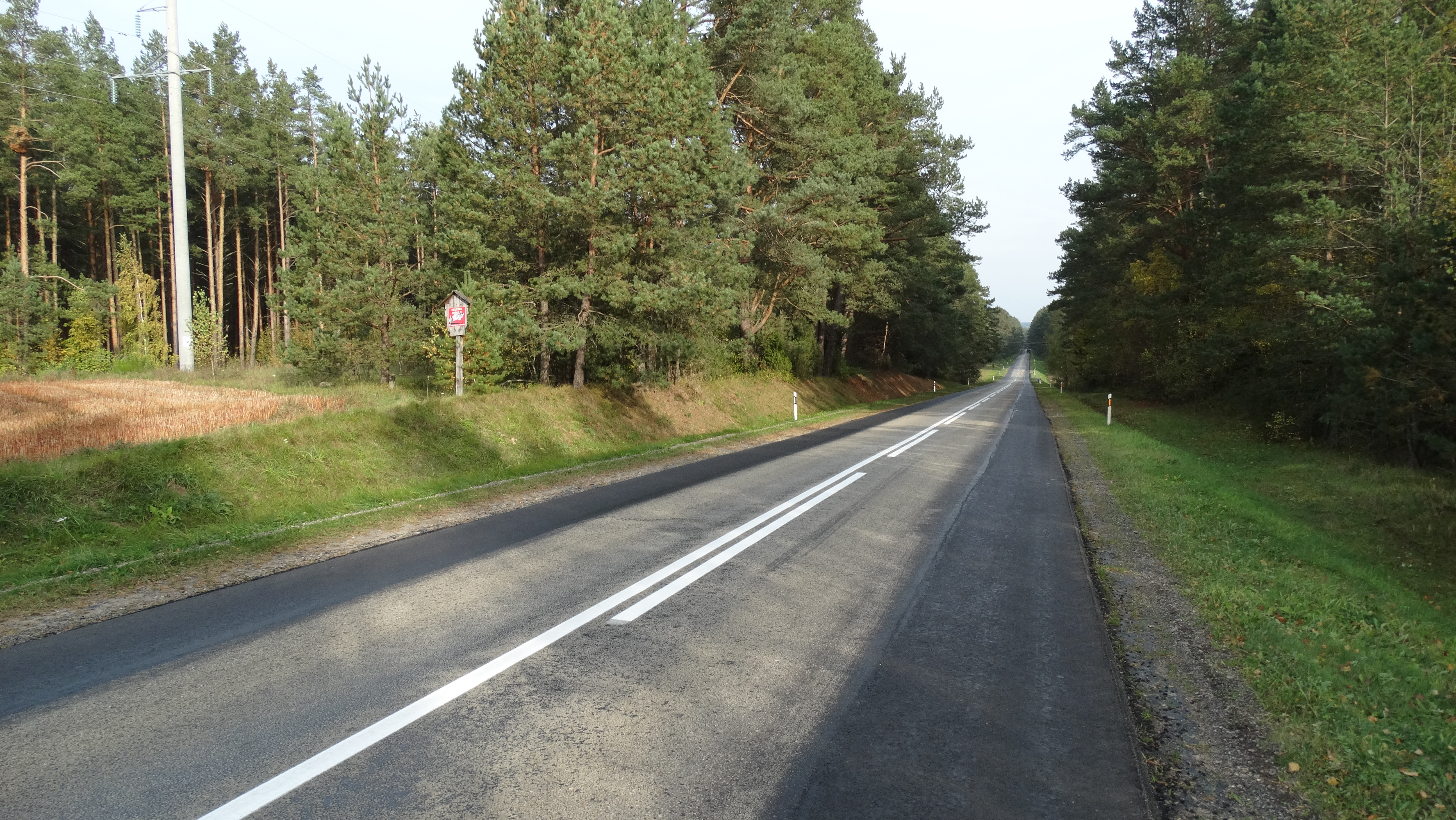 Road 133, Varėna district, Lithuania